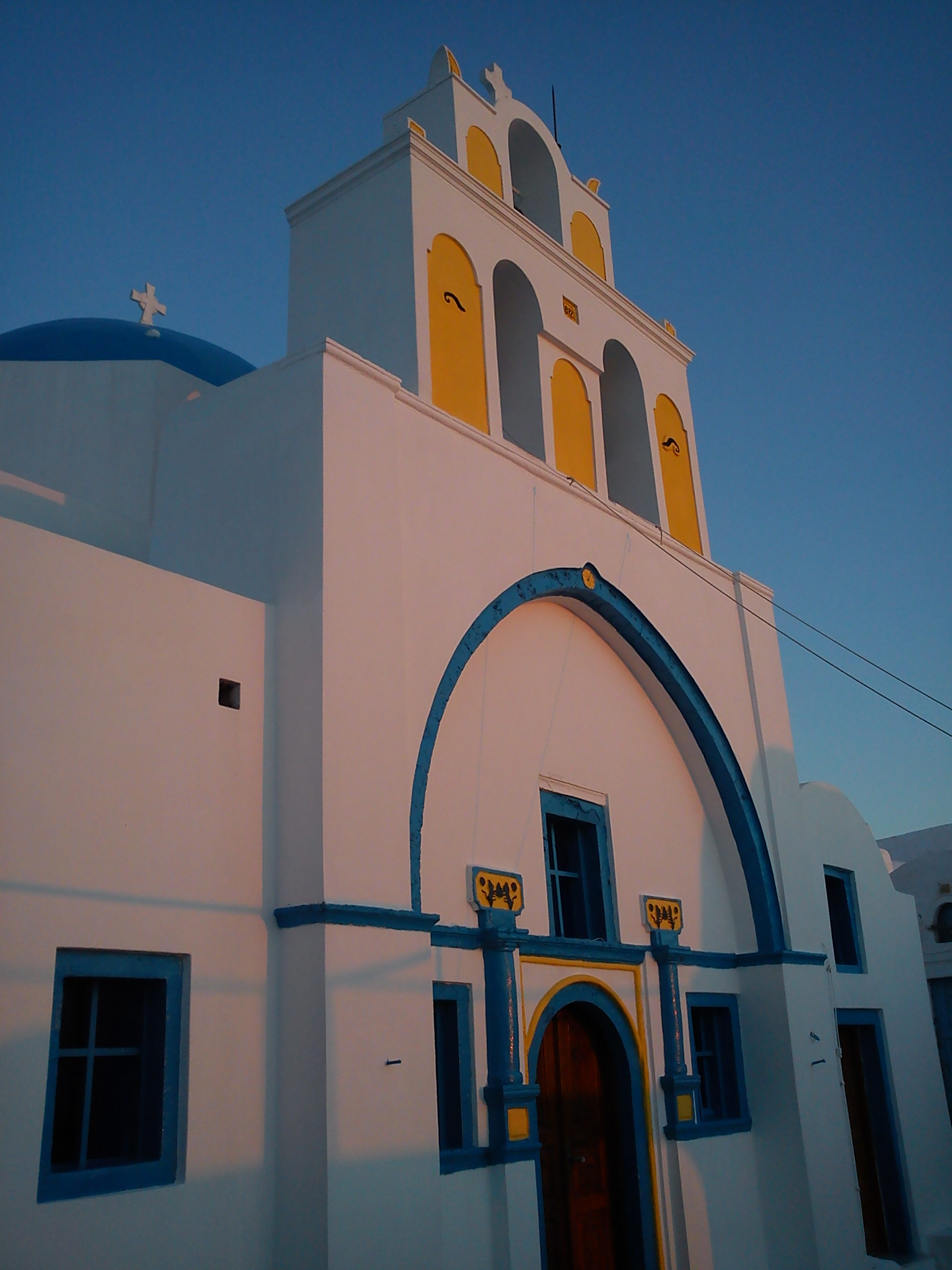 Assumption of Mary monastery in Therasia, Greece